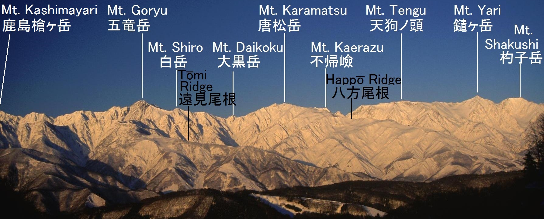 Ushirotateyama Mountains (Mount Kashimayari, Mount Goryu, Mount Shiro, Mount Daikoku, Mount Karamatsu, Mount Kaedazu, Mount Tengu, Mount Yari and Mount Shakushi) seen from Kamishiro, Hakuba, Nagano, Nagano Prefecture, Japan.